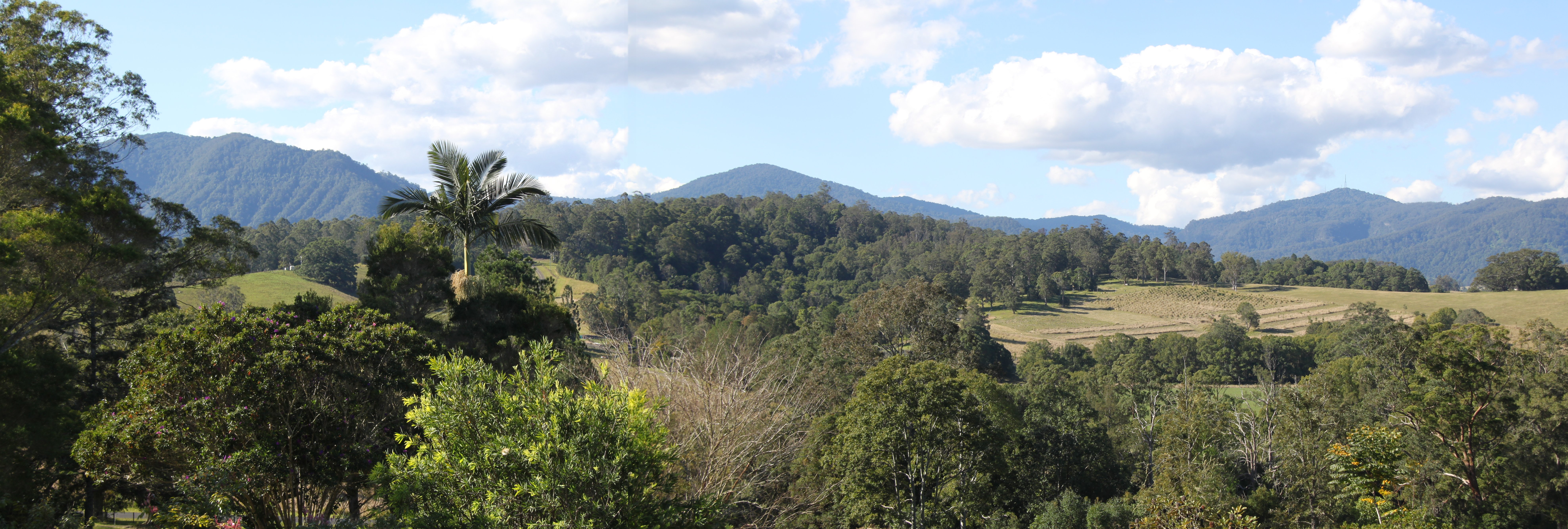 Southern edge of the Nightcap Range in northern New South Wales, showing (L-R) parts of Mount Burrell, Mount Neville and Mount Nardi